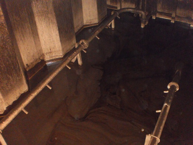 Drilling fluid (Oil Base Mud) in tank on AHTS vessel. Visible pipe for recyrculation of mud.